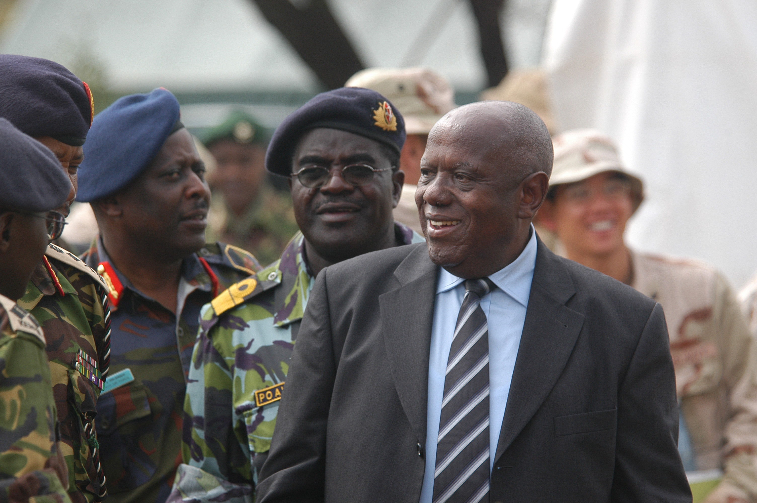 NGINYANG, Kenya - August 8, 2006 - Kenyan Minister of Defense, The Hon. Njenga Karume led a contingent of distinguished visitors including senior officers from Kenya, Tanzania and Uganda and The United States of America at Natural Fire Opening Ceremonies.